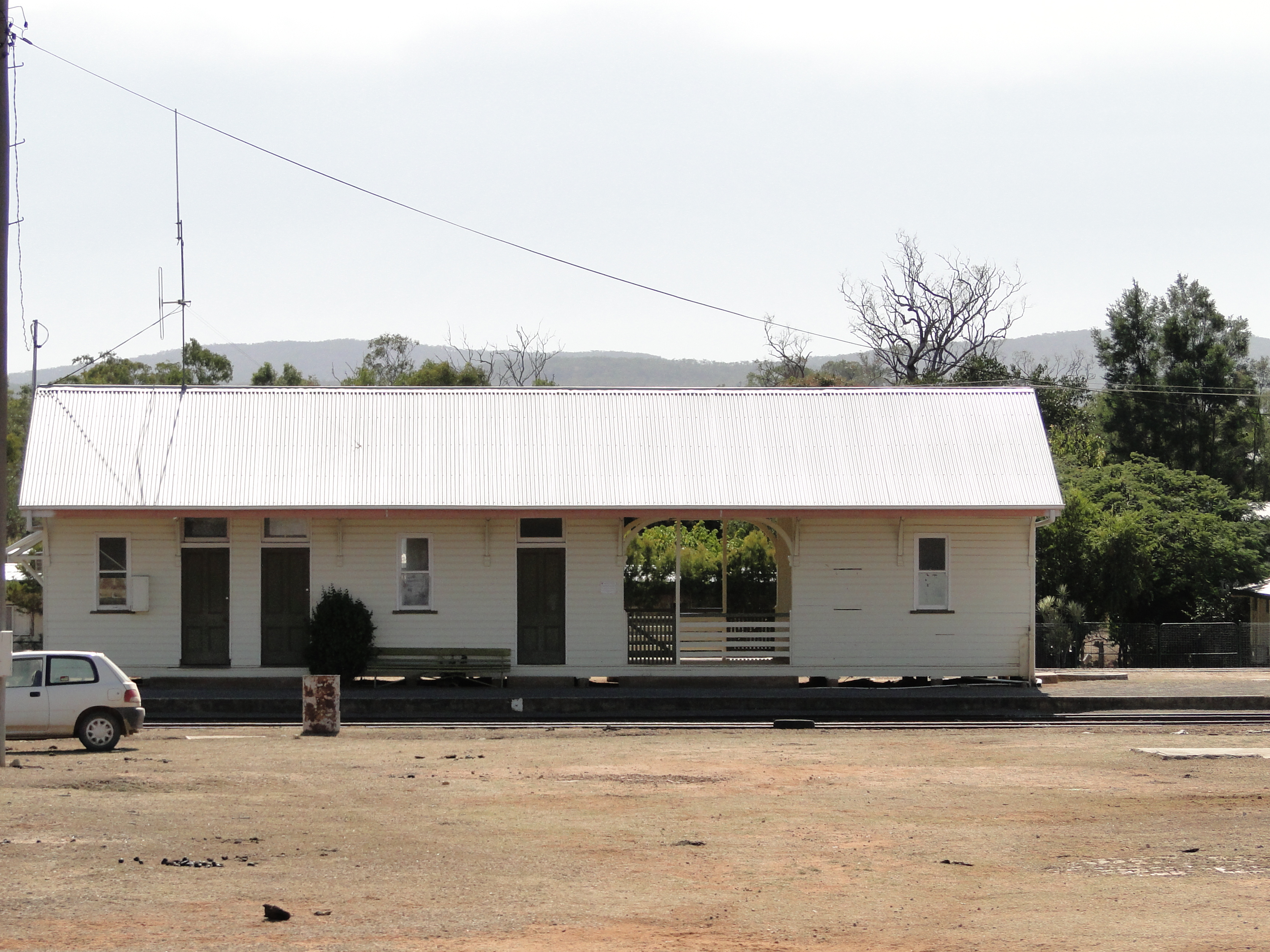 The weatherboard railway station building at Almaden, Queensland, Australia, on the Mareeba-Mungana railway line.